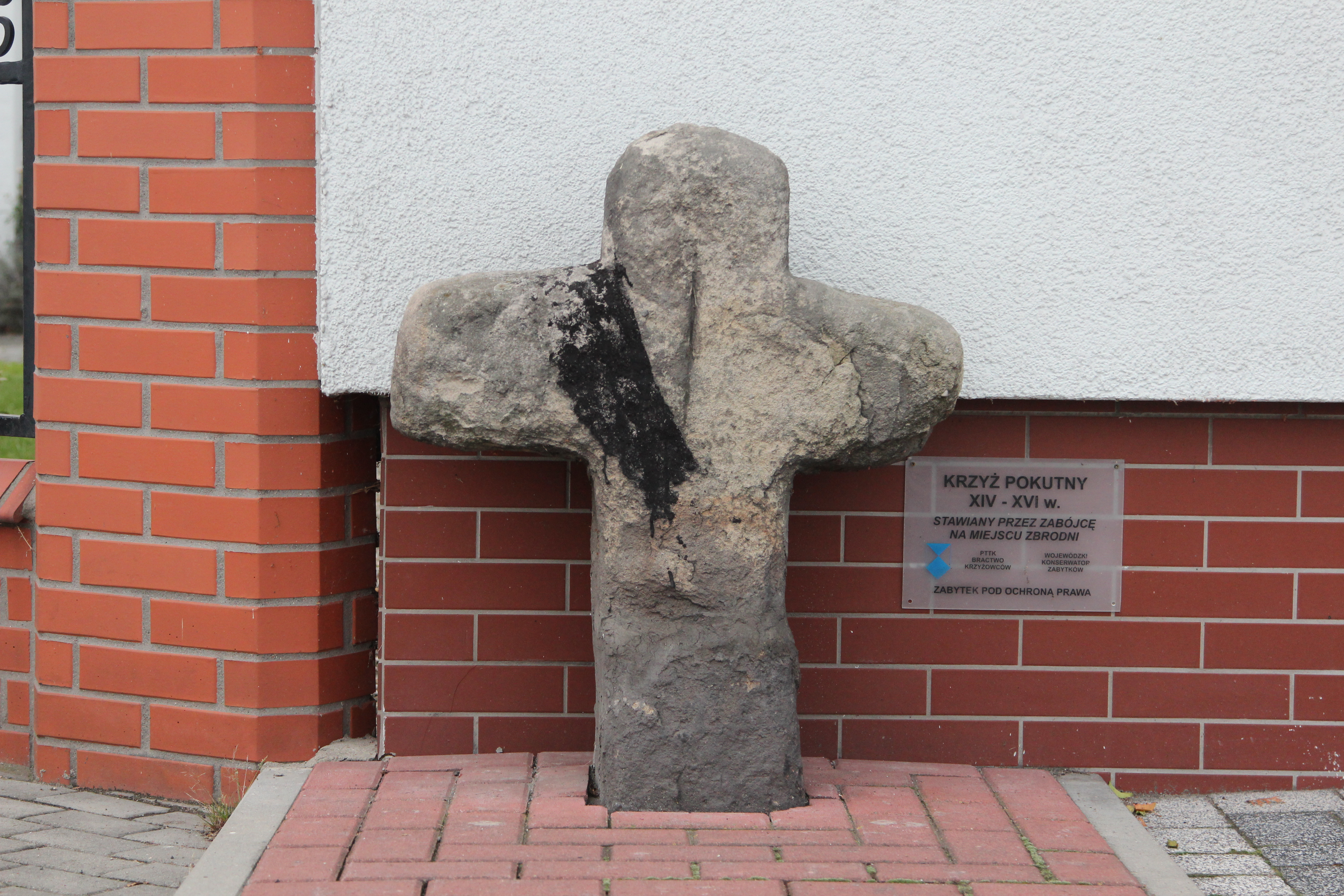 Stone cross in Rudyszwałd